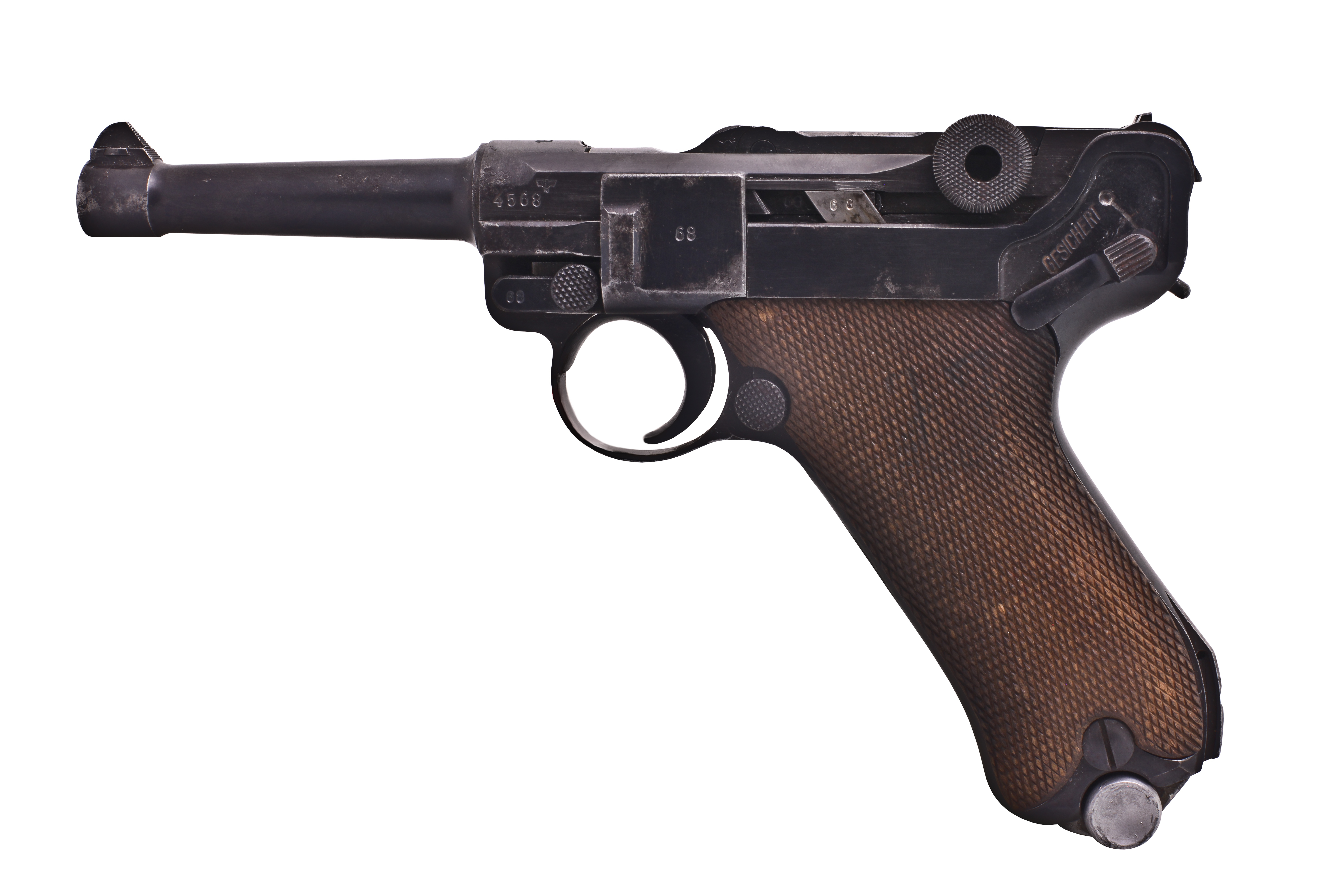 Ordnance Luger pistol of the Army of the Third Reich. Collection Paul Regnier, Lausanne, Switzerland